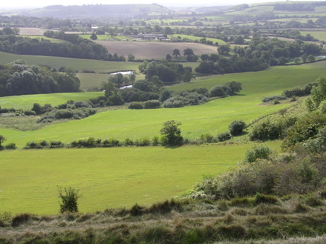 View south across Balmers Coombe Bottom from Rawlsbury hillfort. Looking south from the ramparts of Rawlsbury Camp, across Balmers Coombe Bottom over some very green countryside. Rawlsbury Farm can be seen in the middle distance and in the far distance is Nordon Hill.